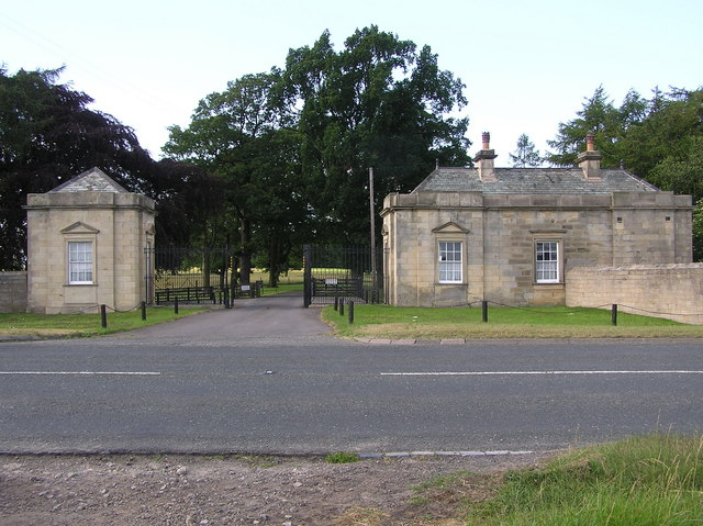 South Lodge : Streatlam Park. On the A688. The site of Streatlam Castle a Mansion built by Sir William Bowes about 1718 on the site of the 15th century Castle. Demolished in 1927, and the remains (of the original castle) blown up by the Army in 1956.